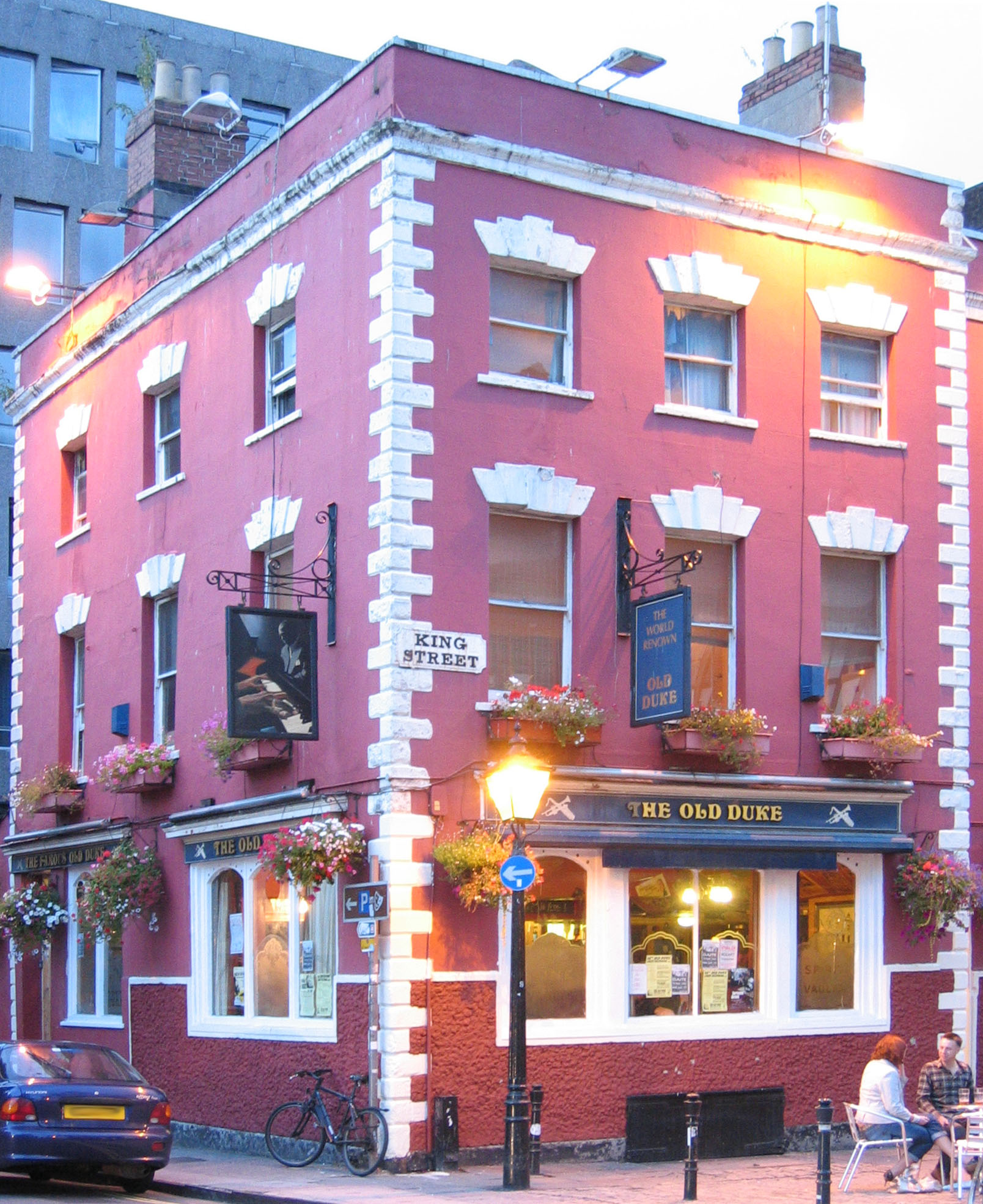 The Old Duke, King Street, Bristol. Note the reference to Duke Ellington on the pub sign.